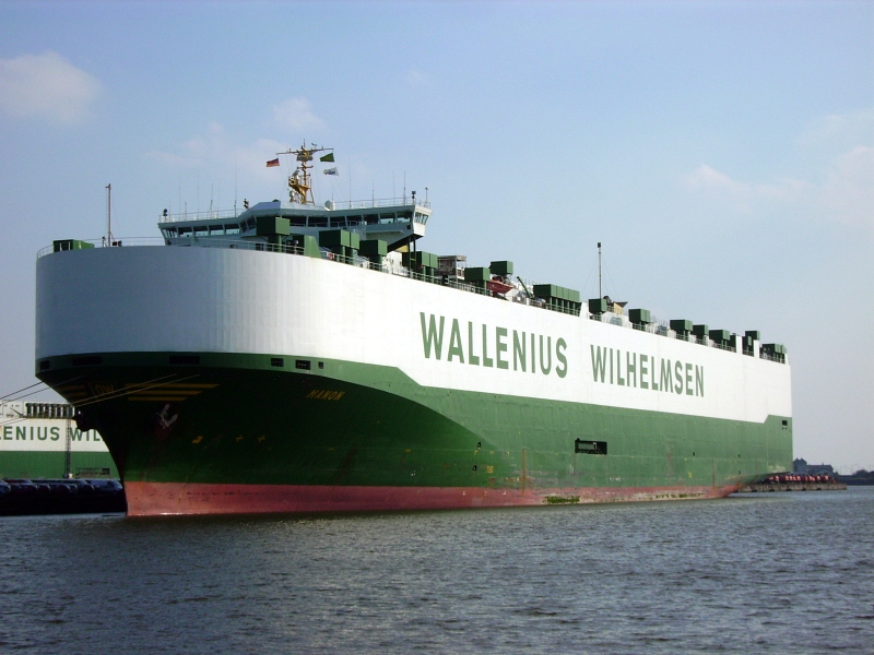 The car carrier "Manon" in the port of Bremerhaven, Germany. The ship is in service for Wallenius Wilhelmsen IMO Number: 9179725 MMSI Number: 265492000 Callsign: SIWN Length: 228 m Beam: 32 m